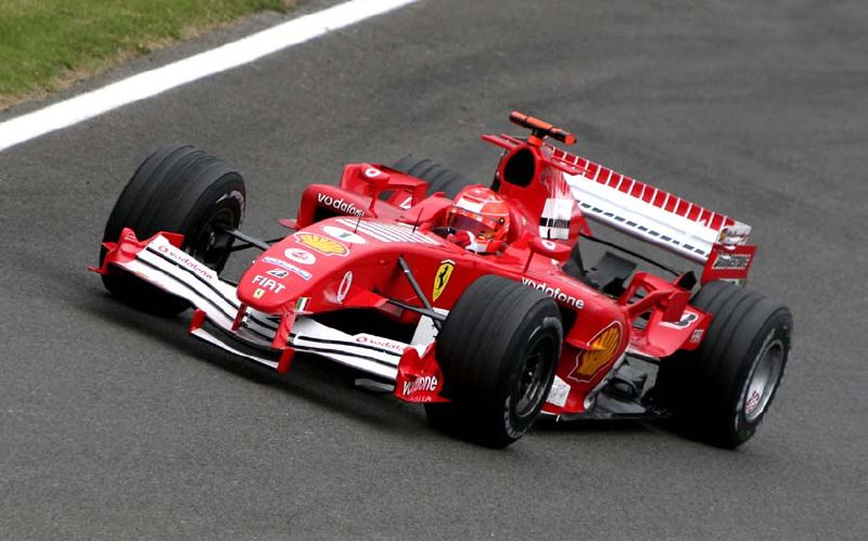 Michael Schumacher driving for Scuderia Ferrari at the 2005 British Grand Prix.